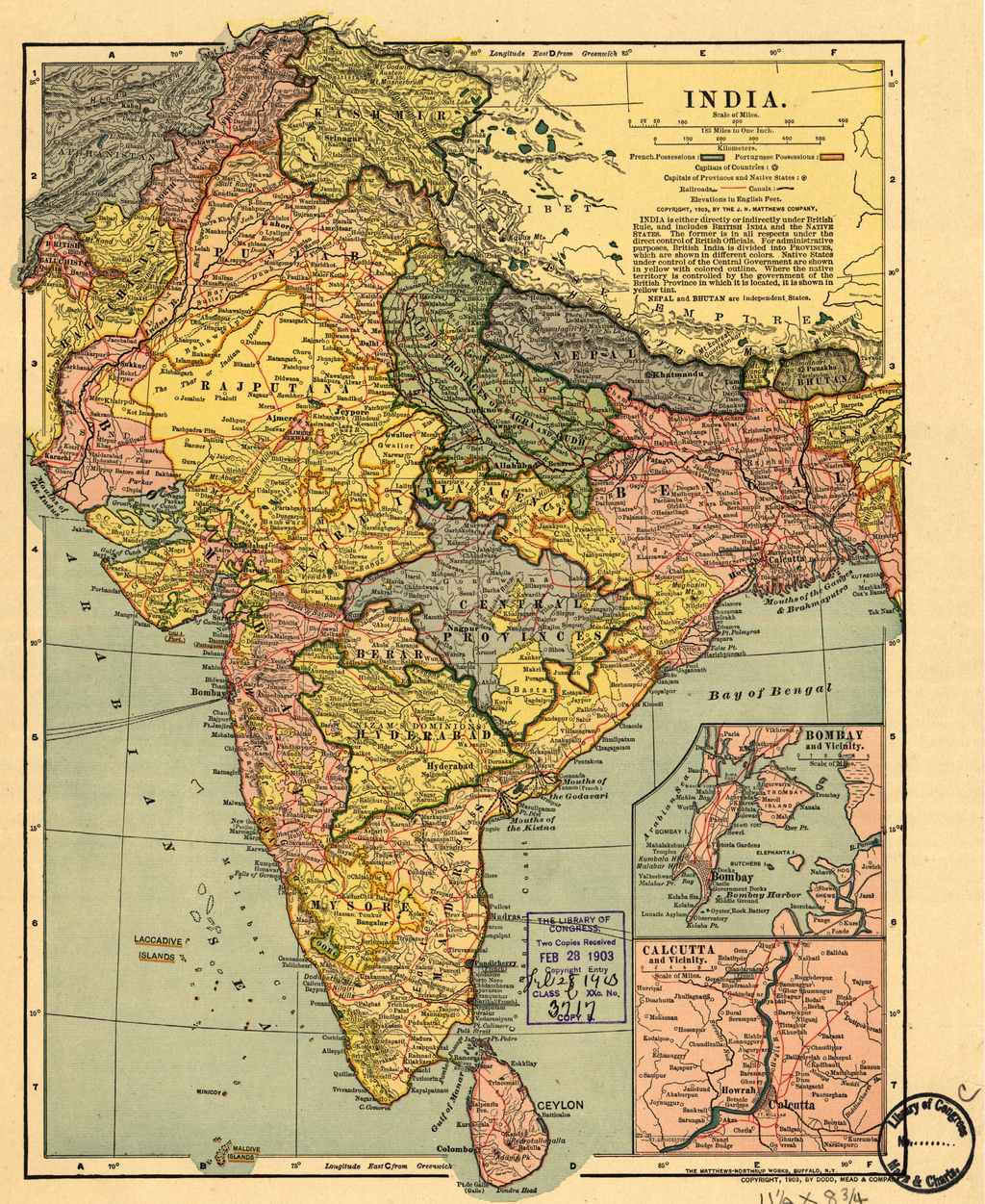 This early-20th century map shows the British Empire in India, a complex political structure that was made up of provinces directly ruled by Britain and the Native--or Princely--States, which were ruled indirectly through Indian sovereigns subject to British suzerainty. Also shown on the map are the French and Portuguese enclaves, the independent states of Nepal and Bhutan, and the island of Ceylon (present-day Sri Lanka), which was under British rule but not part of the Indian Empire. India became independent in 1947, but was partitioned into the states of India and Pakistan. The latter in turn split, in 1971, into Pakistan and Bangladesh. The publisher of the map, Dodd, Mead, and Company, was founded in New York in 1839 by Moses Woodruff Dodd and John S. Taylor, and was originally a publisher of religious books. In 1870, when Dodd's nephew Edward S. Mead took over the firm, it became Dodd and Mead, and later Dodd, Mead, and Company. One of its best known publications was the 20-volume New International Encyclopedia (1903-04), in which this map also appeared.